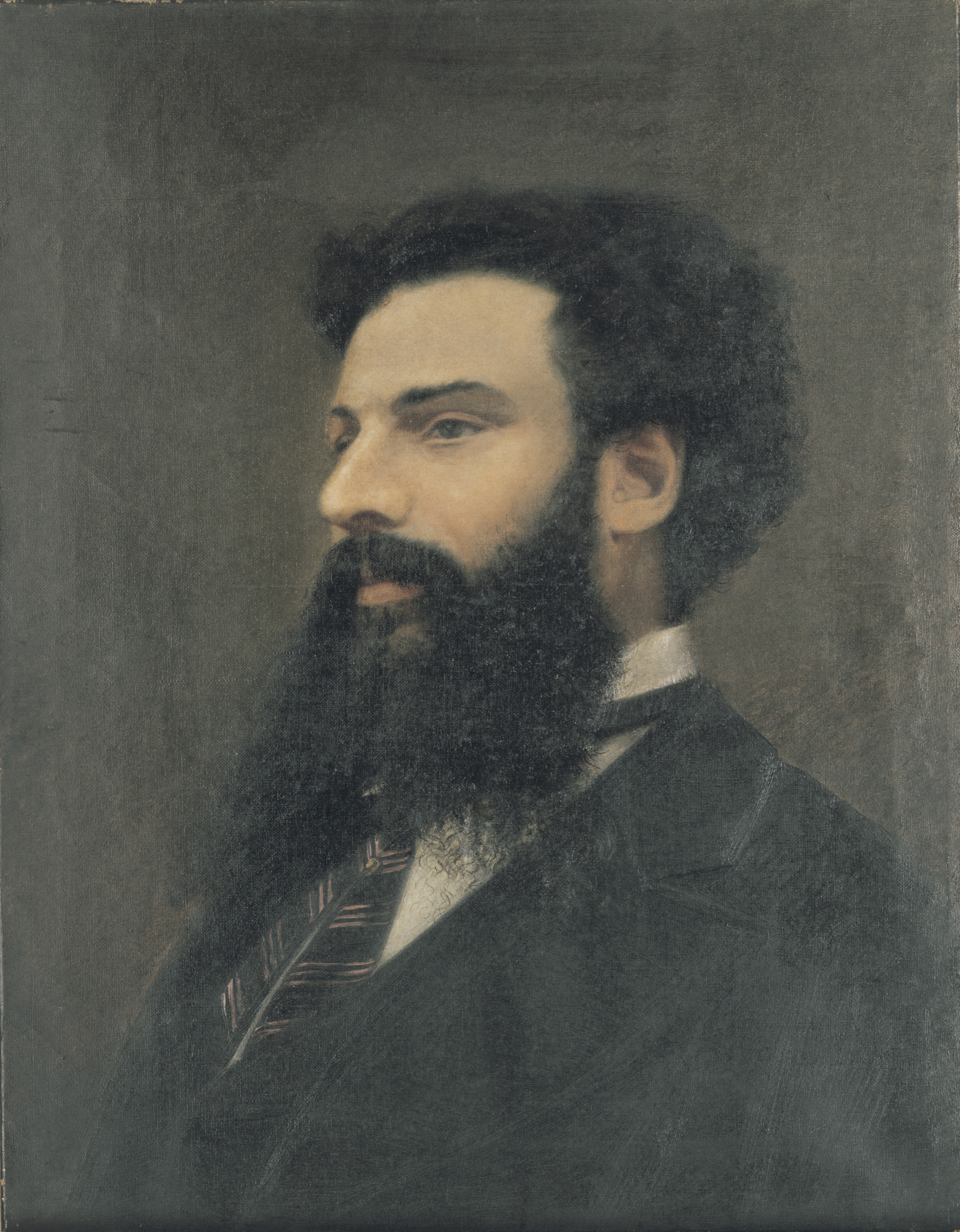 The portrait of Vincenzo Ragusa by Prospero Ferretti. A collection of Tokyo National Museum.